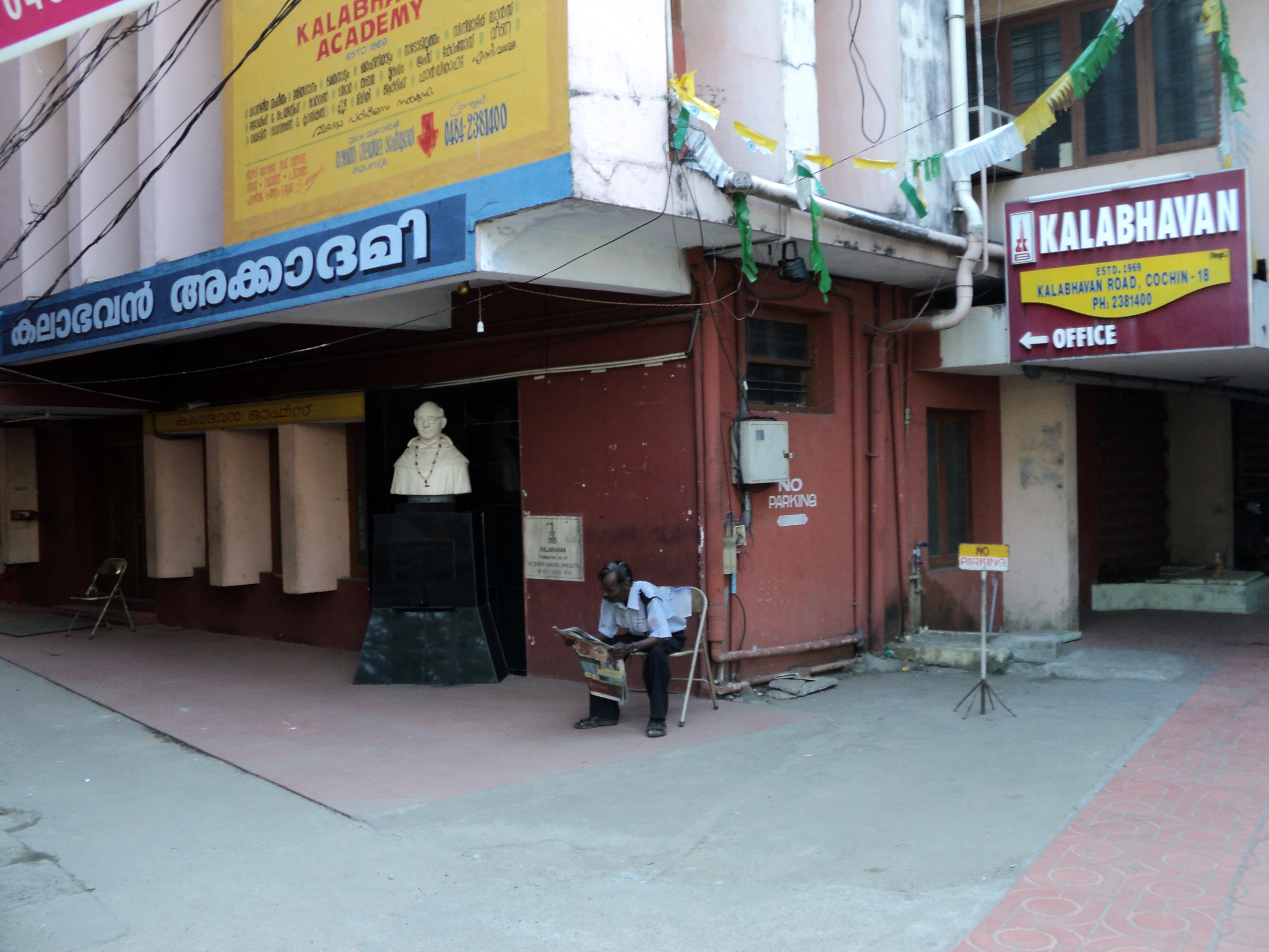 Cochin Kalabhavan building at Ernakulam North on Kalabhavan road